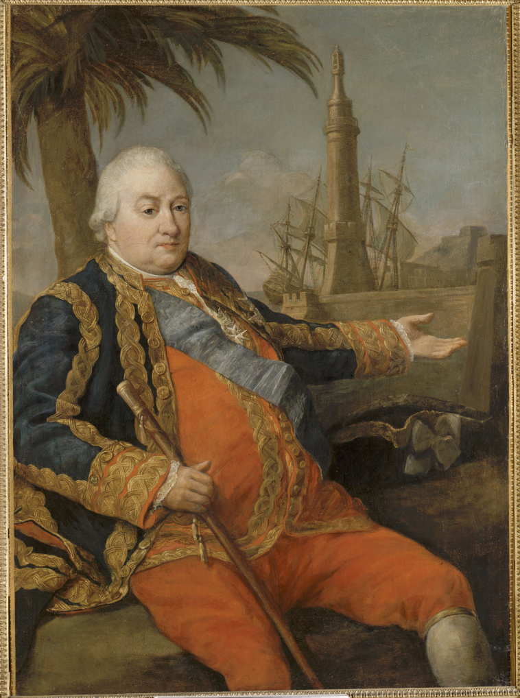 French Admiral Pierre André de Suffren de Saint Tropez, also known as the Bailli de Suffren.